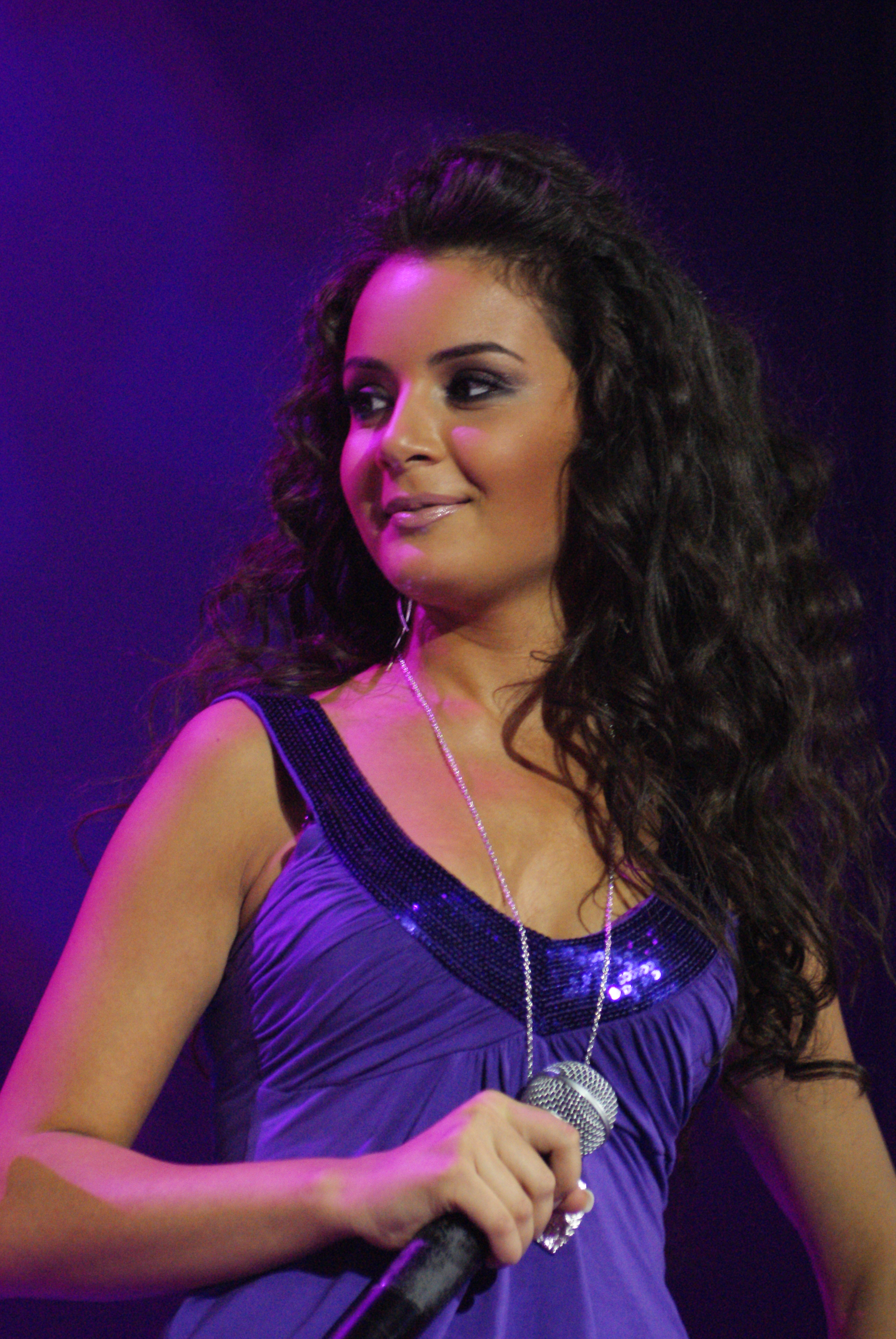 AySel in Moscow, 2009